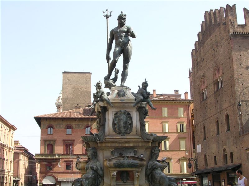 The Fountain of Neptune, by Jean de Boulogne, in "Piazza Maggiore" square at Bologna, Italy. 1865 ca. 2008.